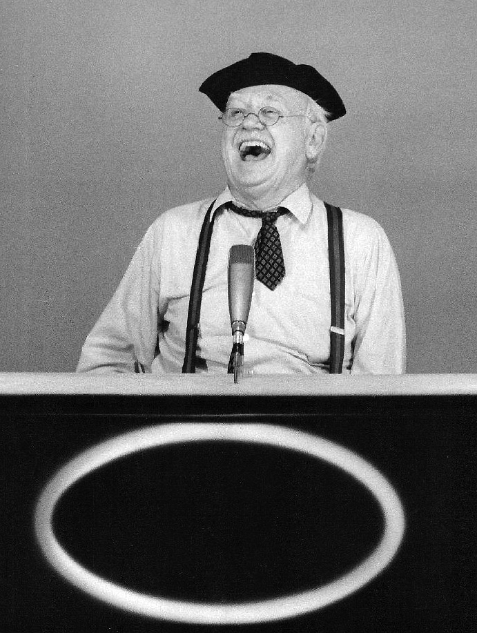 Photo of Cliff Arquette as Charley Weaver from the television game show Hollywood Squares.